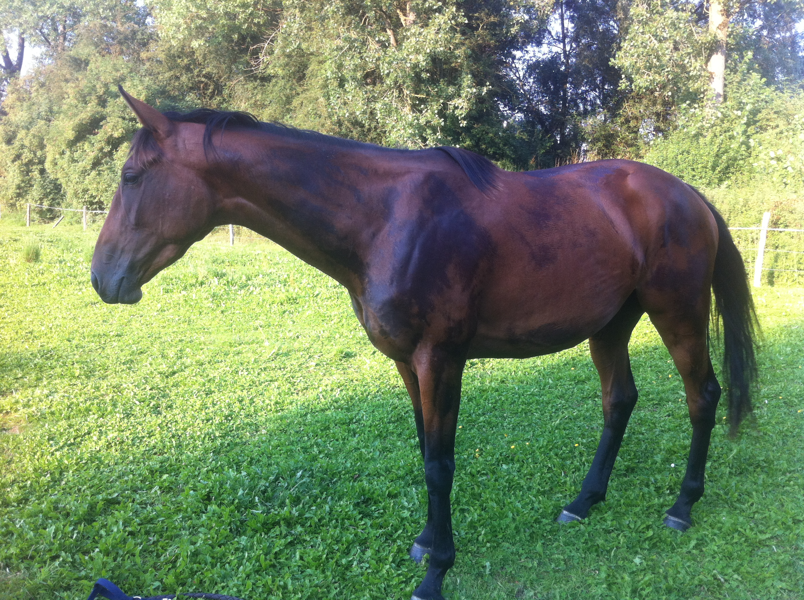 Ushuaia Bleue, AQPS mare born in 2008, propriety of Chloé Lepan